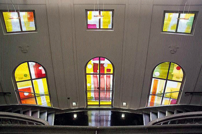 Old University of Hamburg